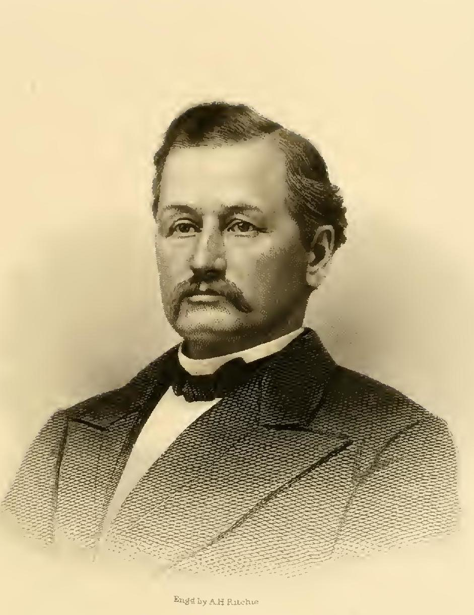 James Adams Weston